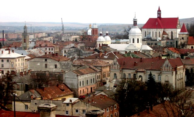 Panoramic view of the historical town of Berezhany in western Ukraine